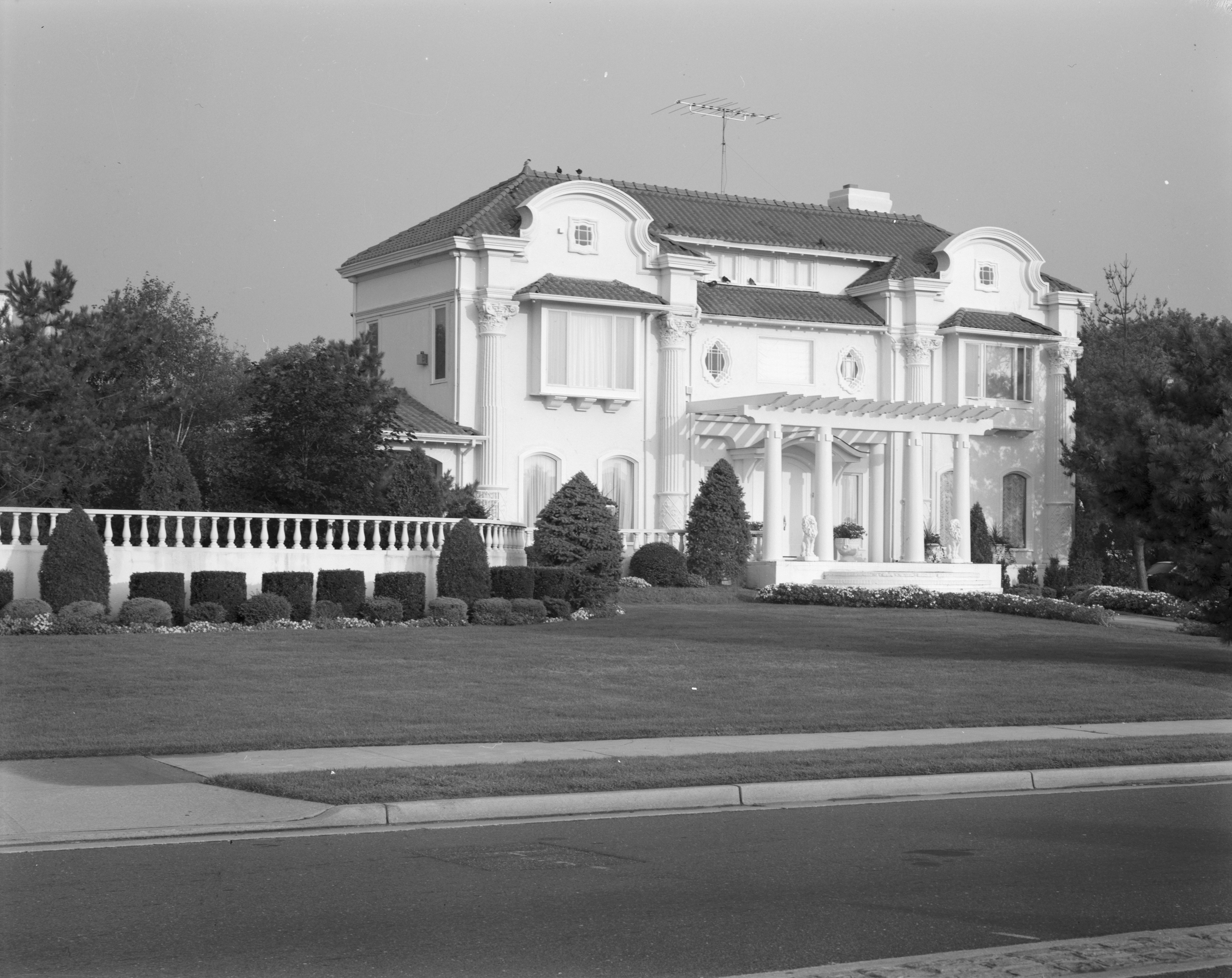 House on Ocean Boulevard, Deal NJ see our File:CLOSER VIEW OF EAST FRONT LOOKING NORTHWEST - 248 Ocean Boulevard (House), Deal, Monmouth County, NJ HABS NJ,13-DEAL,2-2.tif